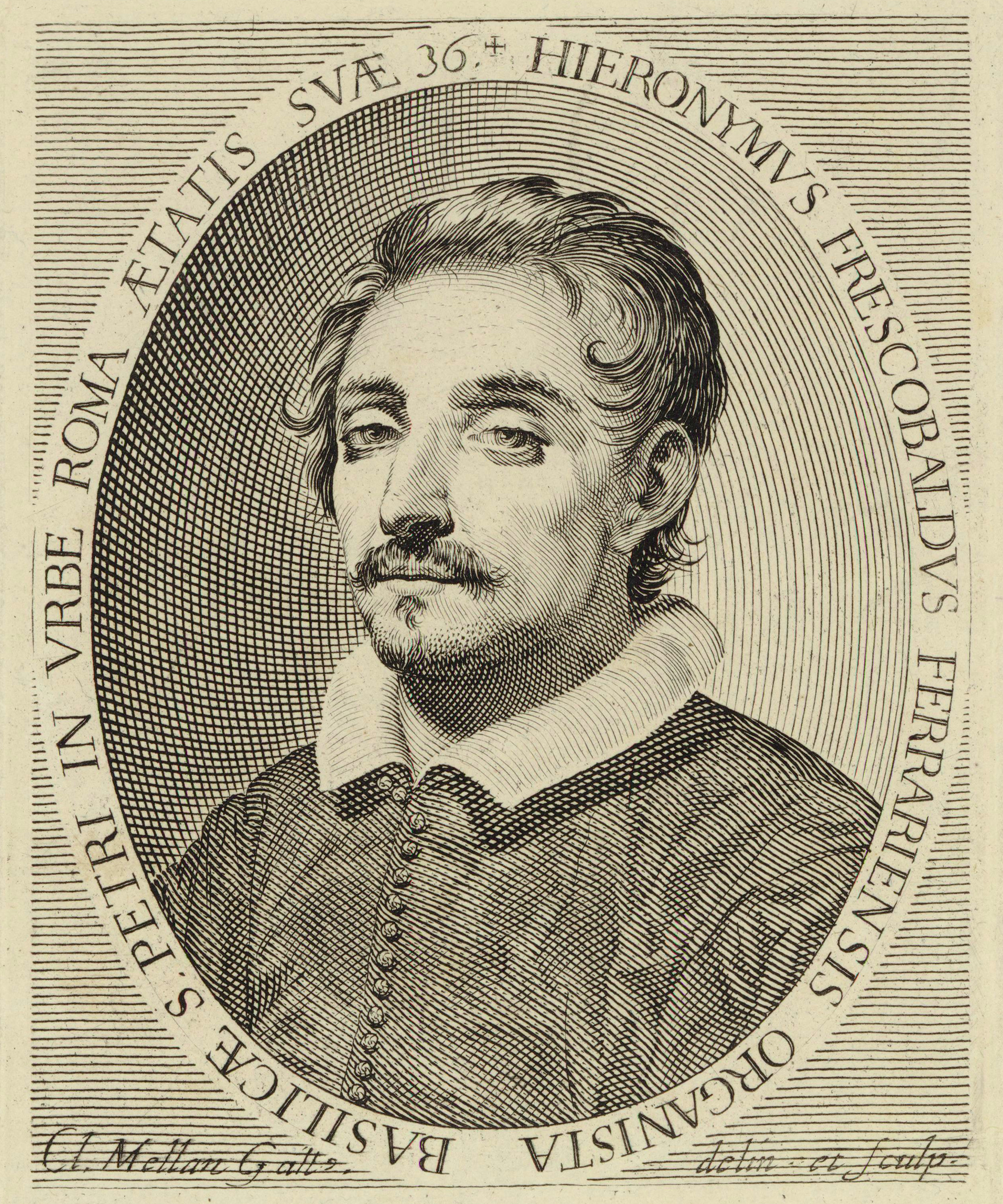 The Italian composer Girolamo Frescobaldi (Ferrara, 1583 - Rome, 1643), engraving by Claude Mellan (1619).